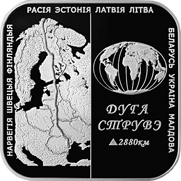 The Struve Geodetic arc. Silver commemorative coins, denomination: 20 rubles, Belarus